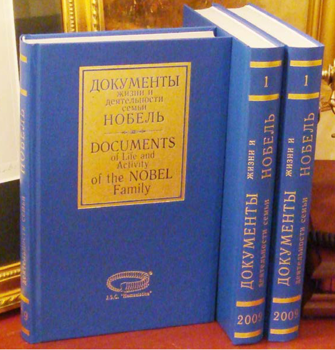 The look of some published books "Documents of life and activity of the Nobel Family"